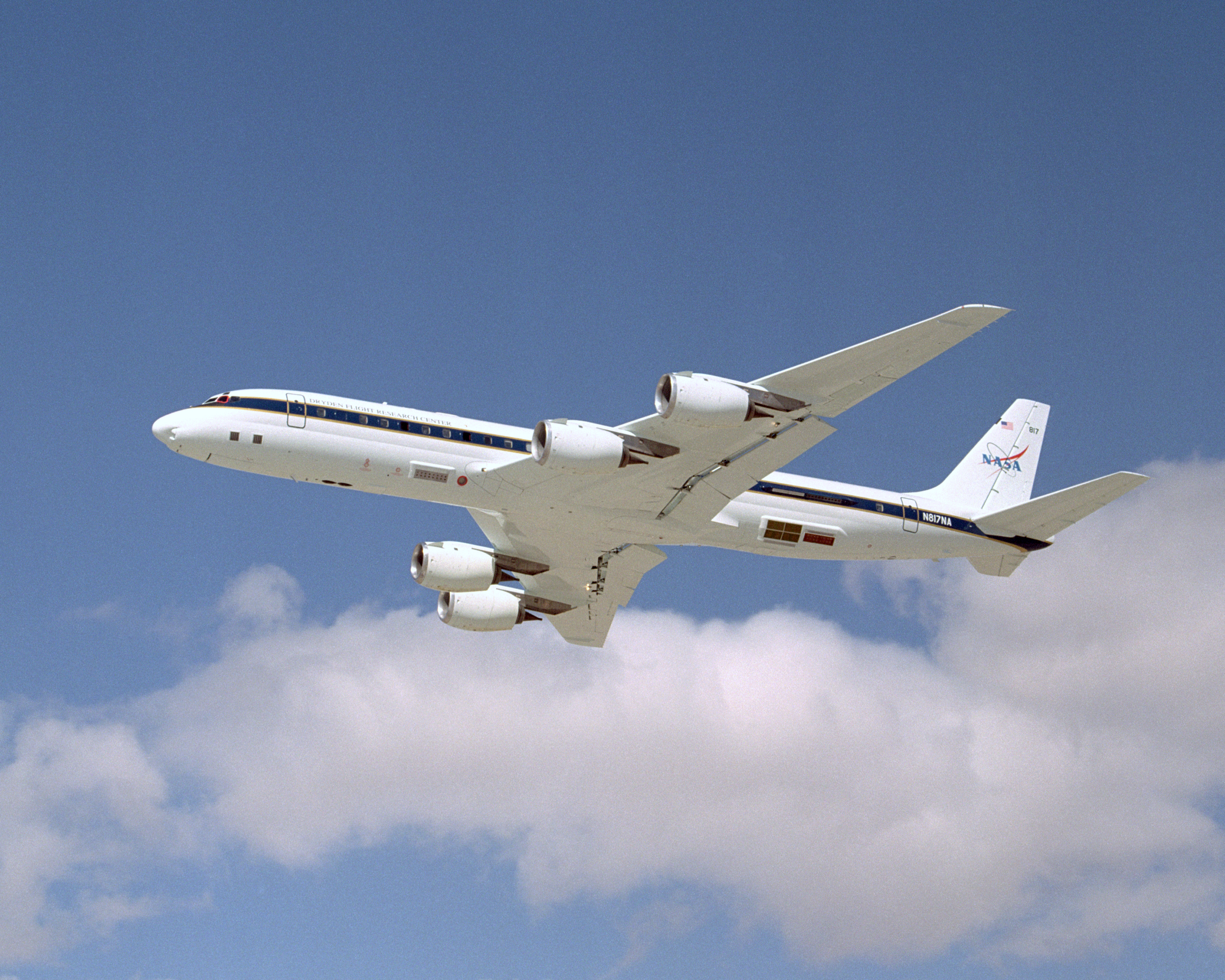 NASA's DC-8 Airborne Science research aircraft, in new colors and markings, takes off Feb. 24, 2004. Formats: 495x480 JPEG Image (109 KBytes) 1056x1024 JPEG Image (520 KBytes) 2474x2400 JPEG Image (3197 KBytes) Photo Description: NASA's DC-8 Airborne Science research aircraft, in new colors and markings, takes off Feb. 24, 2004. Dark panels on lower fuselage are synthetic aperture radar antennas enabling sophisticated studies of Earth features. Project Description: NASA is using a DC-8 aircraft as a flying science laboratory. The platform aircraft, based at NASA's Dryden Flight Research Center, Edwards, California, collects data for many experiments in support of scientific projects serving the world scientific community. Included in this community are NASA, federal, state, academic and foreign investigators. Data gathered by the DC-8 at flight altitude and by remote sensing have been used for scientific studies in archeology, ecology, geography, hydrology, meteorology, oceanography, volcanology, atmospheric chemistry, soil science and biology. Keywords: DC-8, Airborne Science, new paint scheme, flying science laboratory, Airborne Synthetic Aperture Radar, AIRSAR